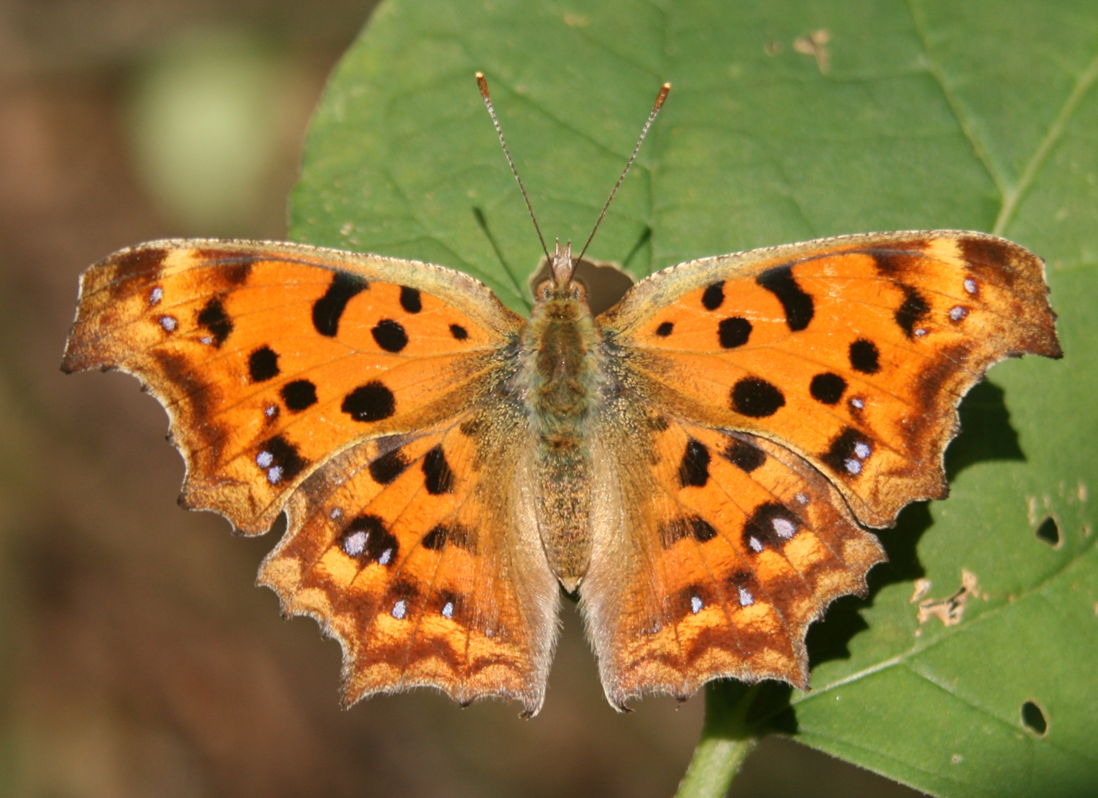 Polygonia c-aureum in Higashiyama Zoo and Botanical Gardens